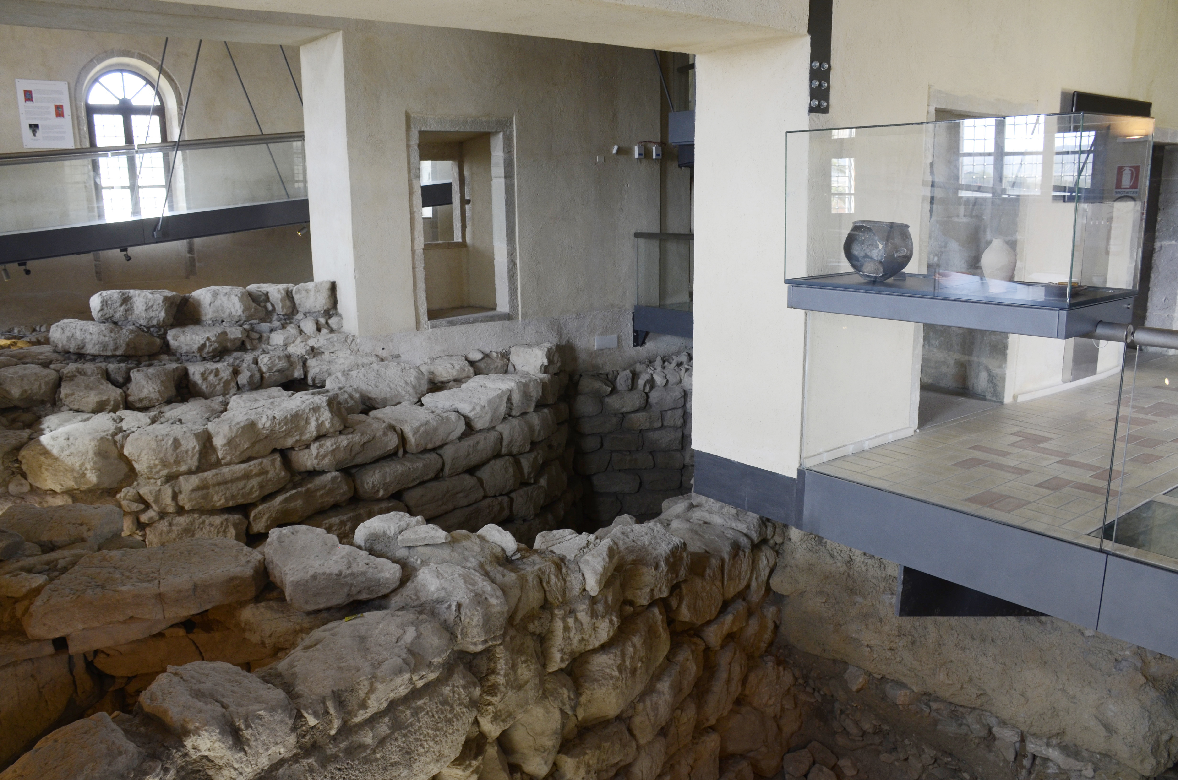 Palazzo Zapata, Barumini, Sardinia. Interior of the museum with view onto the remains of the nuraghe on which the palazzo is built.